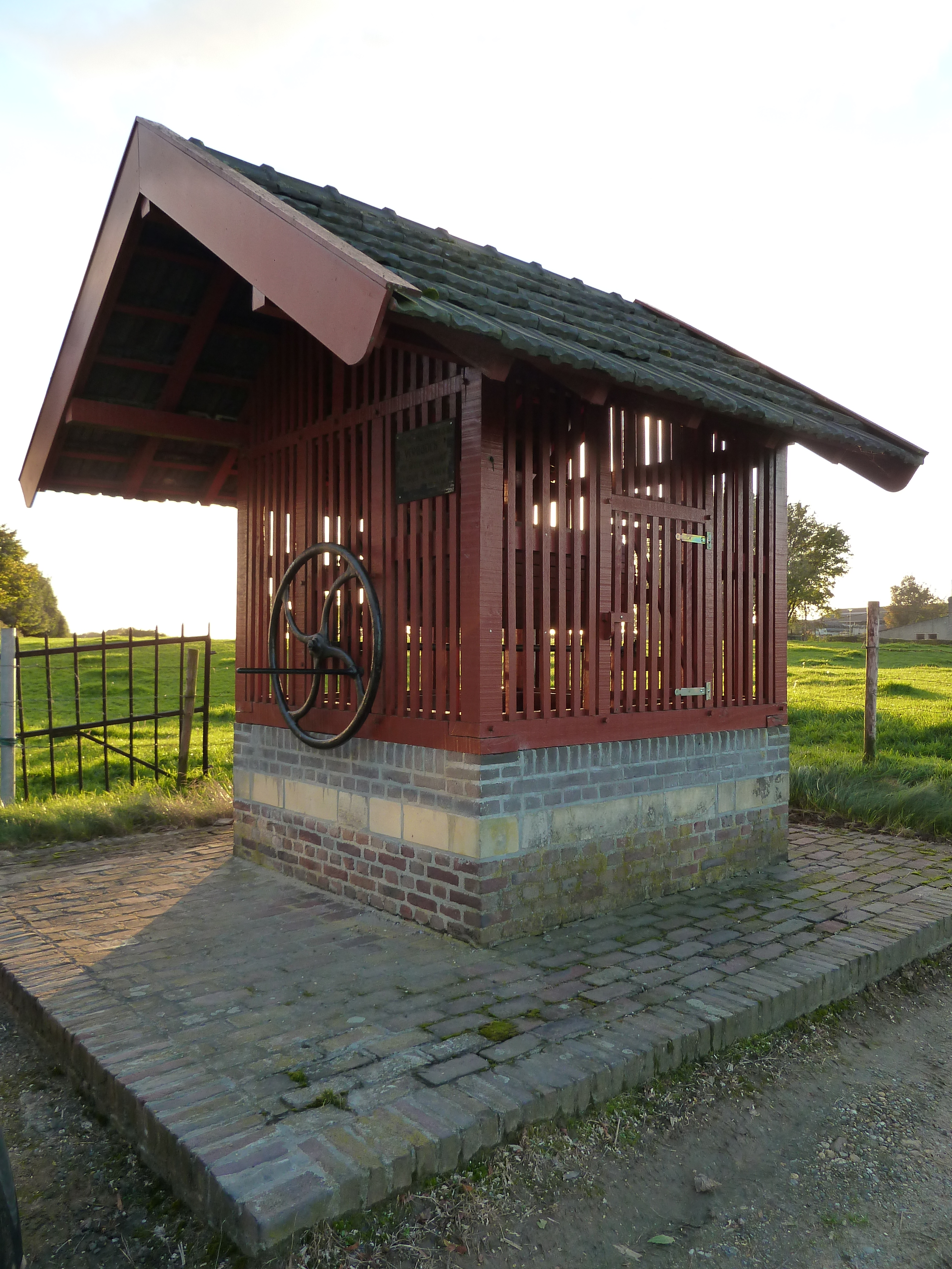 Zwingelput Klein Welsden, Margraten, Limburg, the Netherlands